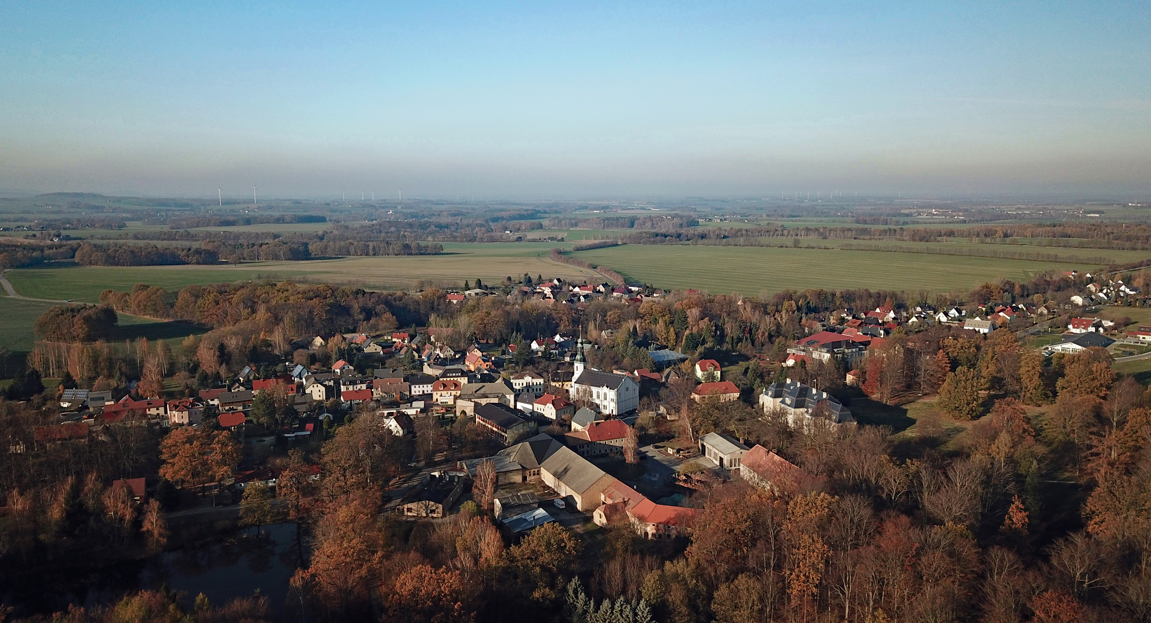 Gaußig (Doberschau-Gaußig, Saxony, Germany) Hornjoserbsce: Powětrowy wobraz Huski